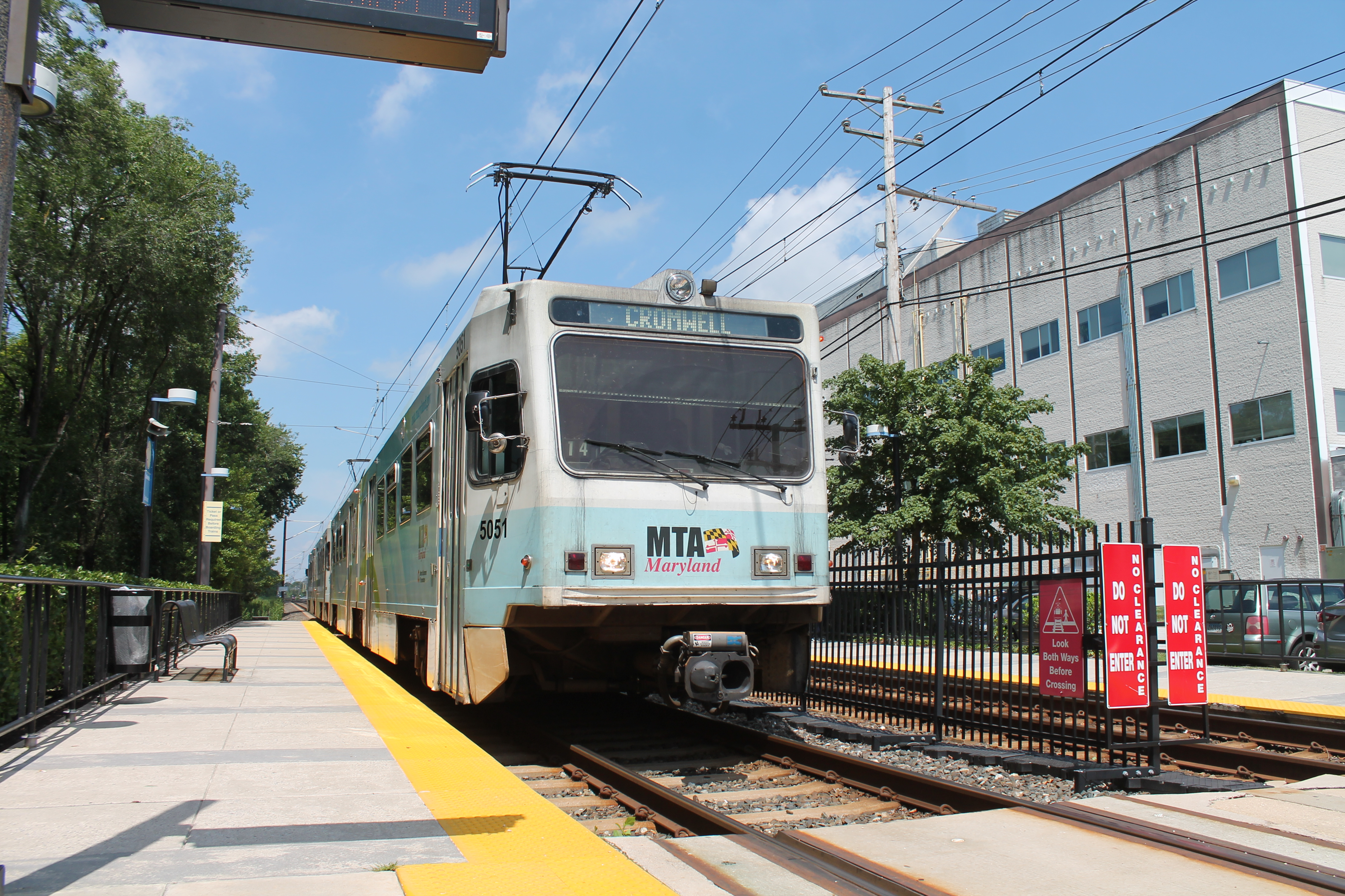 A southbound train at Lutherville station in August 2016